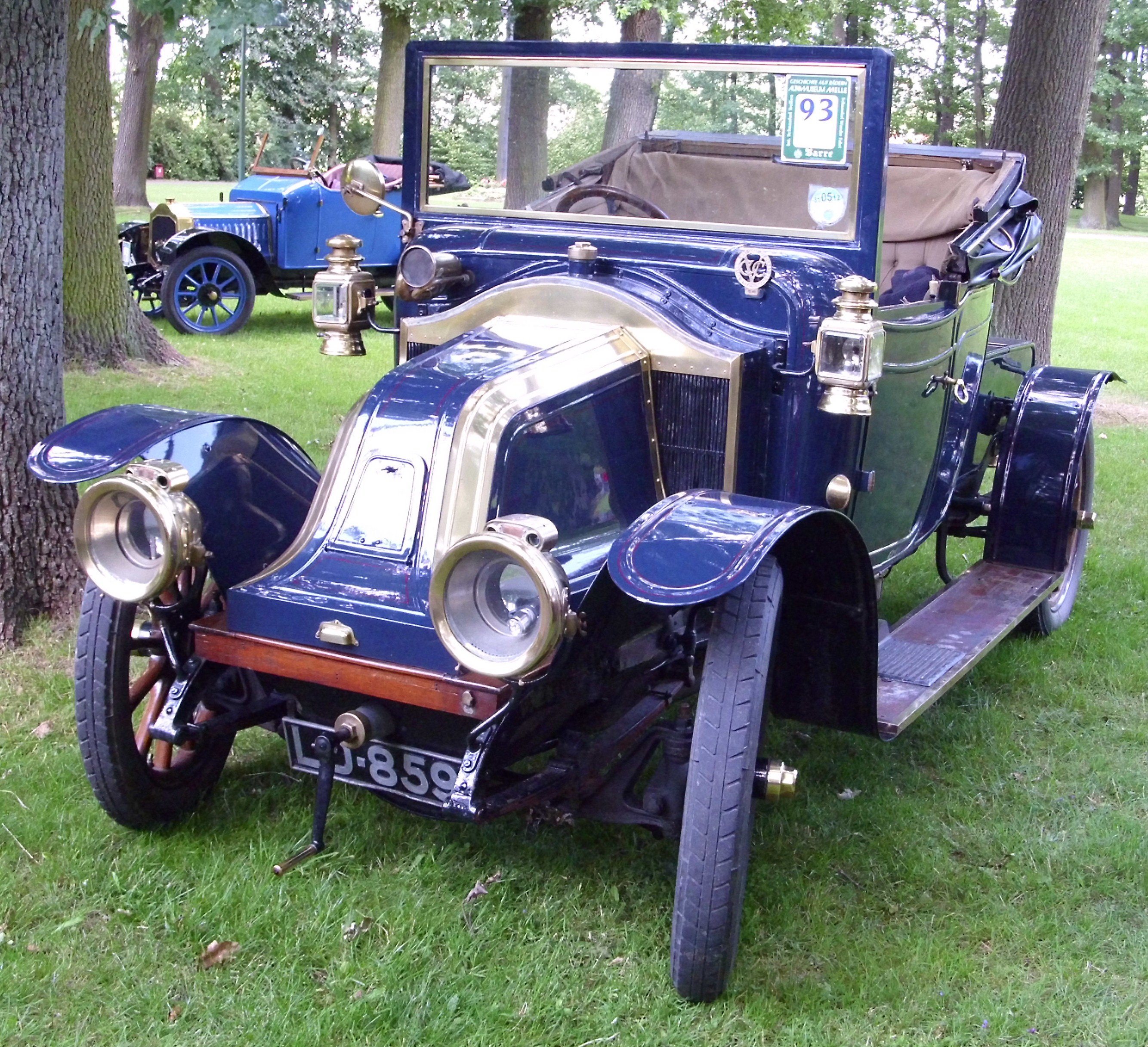 Renault Type BZ Torpedo 1909-1910